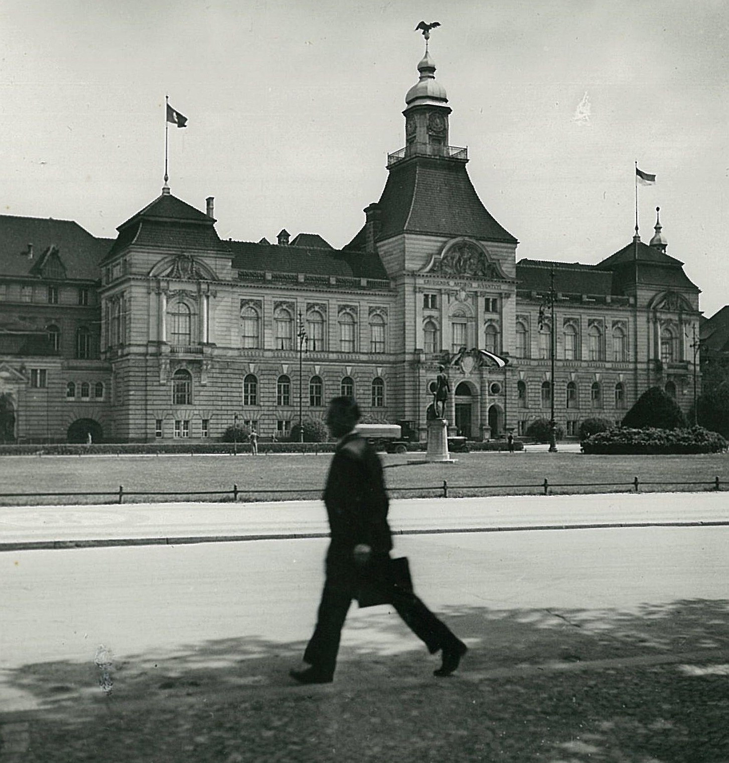 Hochschule für die Bildenden Künste ca 1928 in Berlin, Germany.